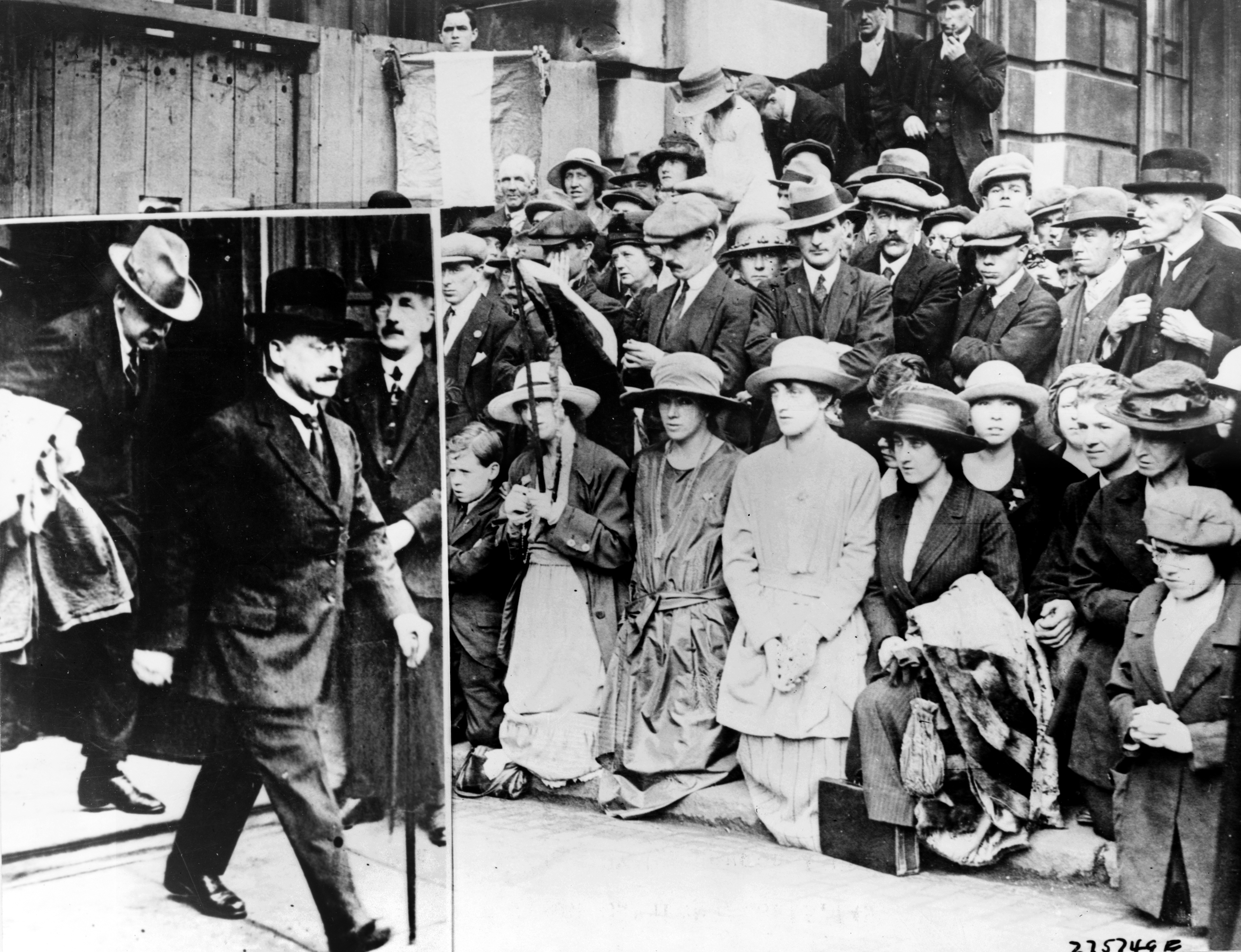 Arthur Griffith (in inset), and Irish Republican sympathizers, in London for Irish-British peace conference